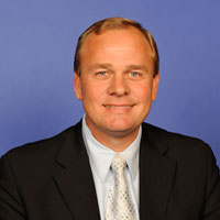 Stephen Fincher, member of the United States House of Representatives.